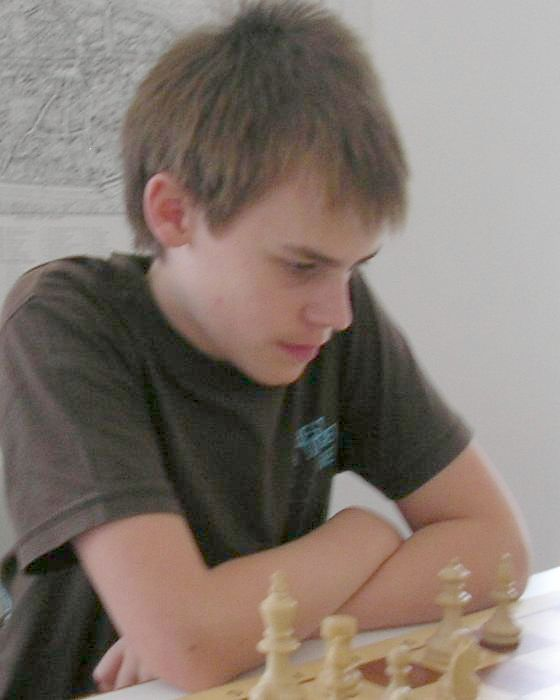 Matthias Blübaum, Dortmunder Schachtage 2010, Photographer Gerhard Hund.